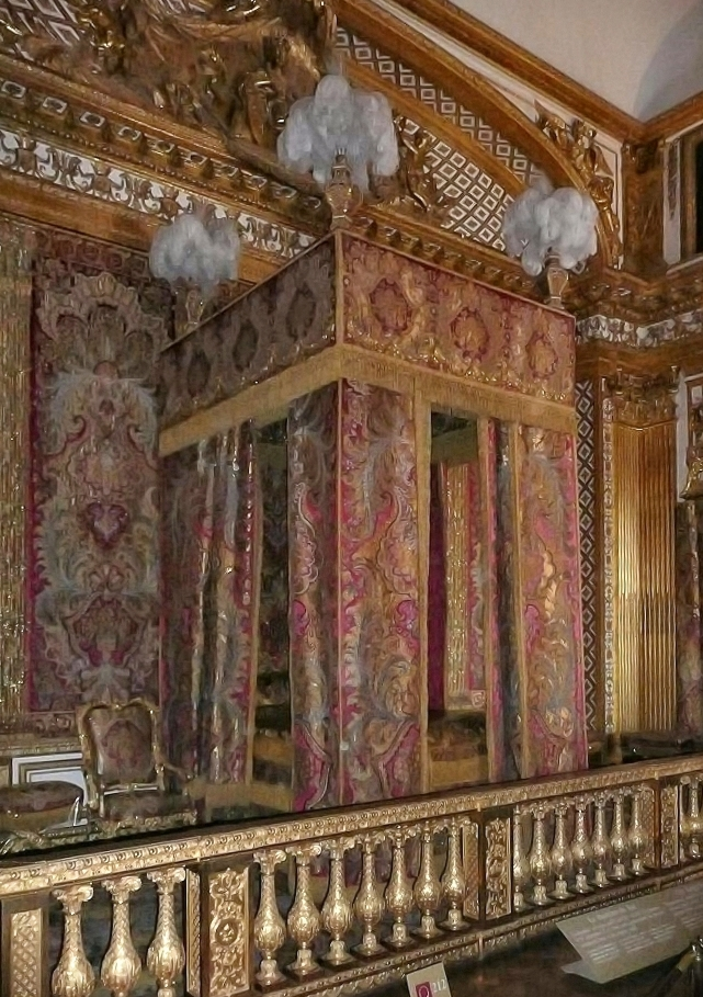 King's bed, Palace of Versailles